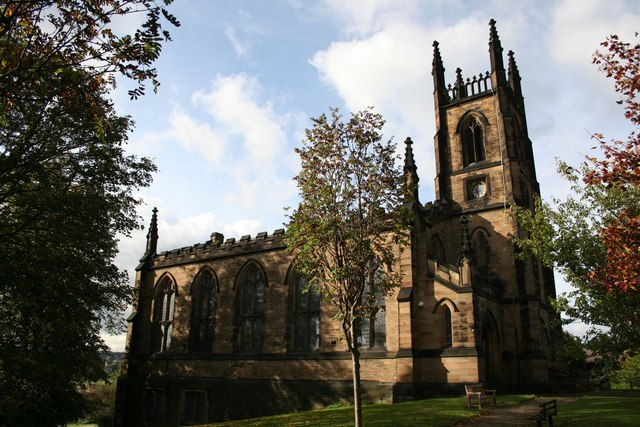 St Mary's parish church, Greasbrough, South Yorkshire, seen from the east